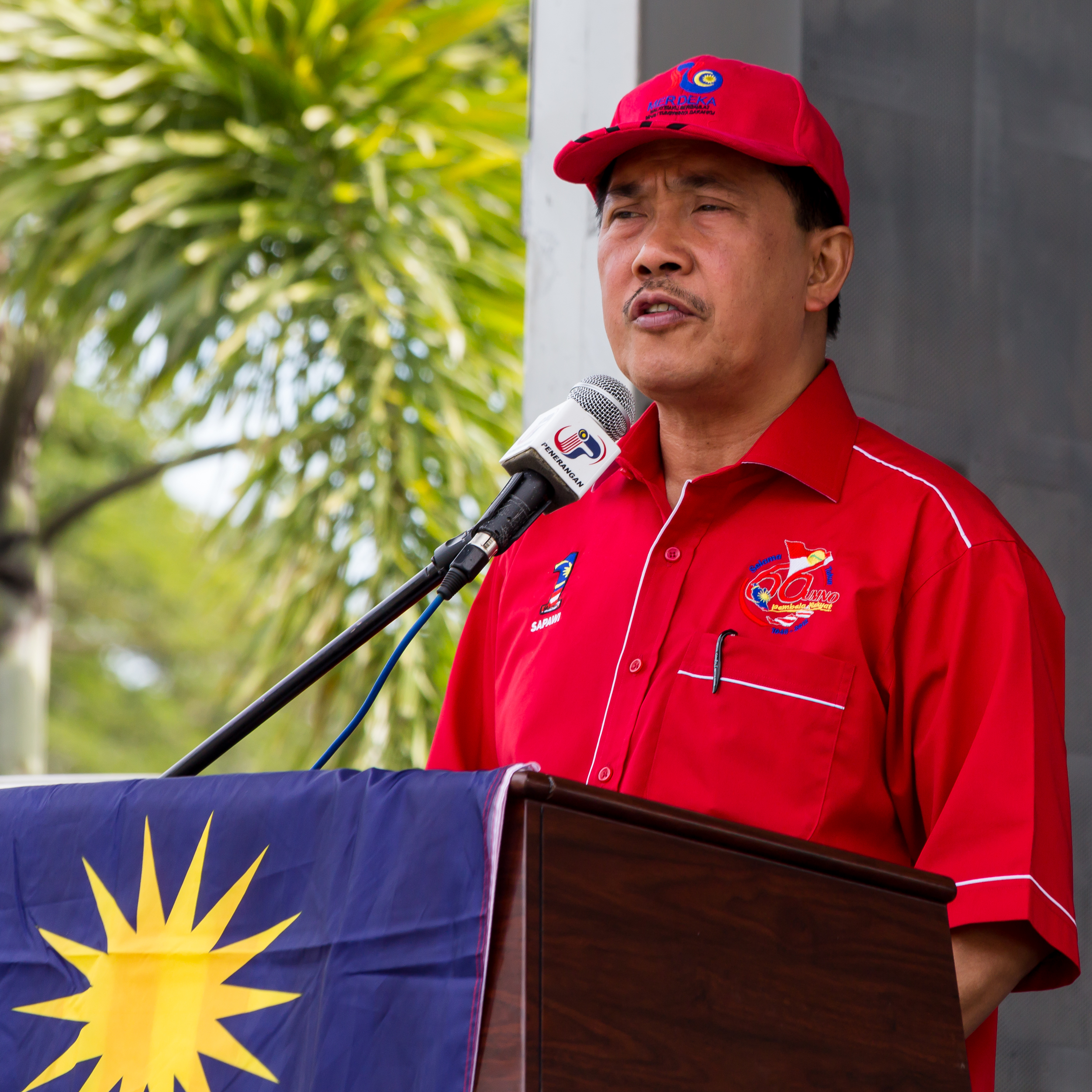 Sipitang, Sabah, Malaysia: Sapawi Ahmad, Member of Parliament for Sipitang Constituency, delivering a sprich during the launch of the “Fly Jalur Gemilang” campaign 2013 in Sipitang